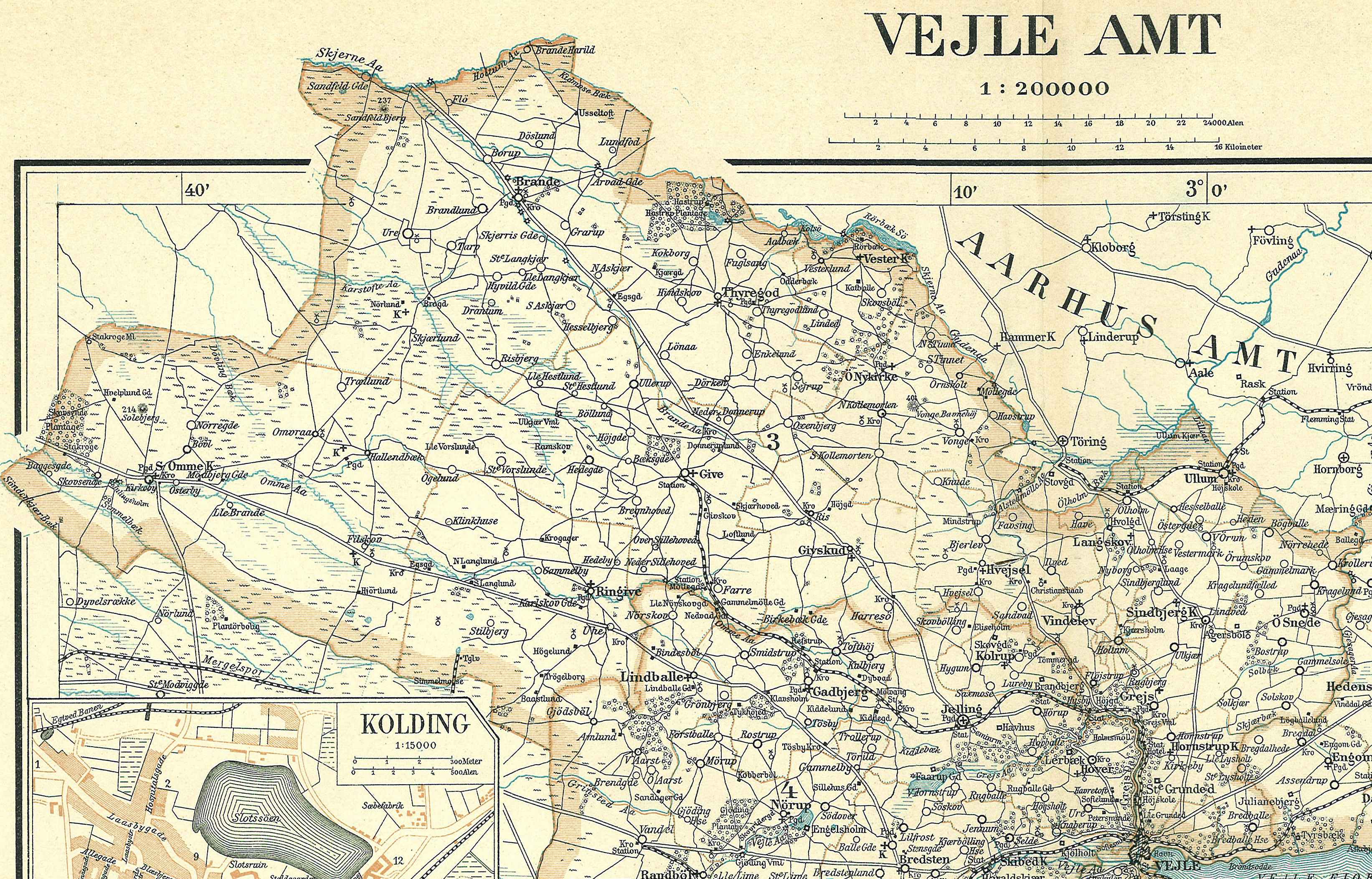 Map of Vejle County in Denmark